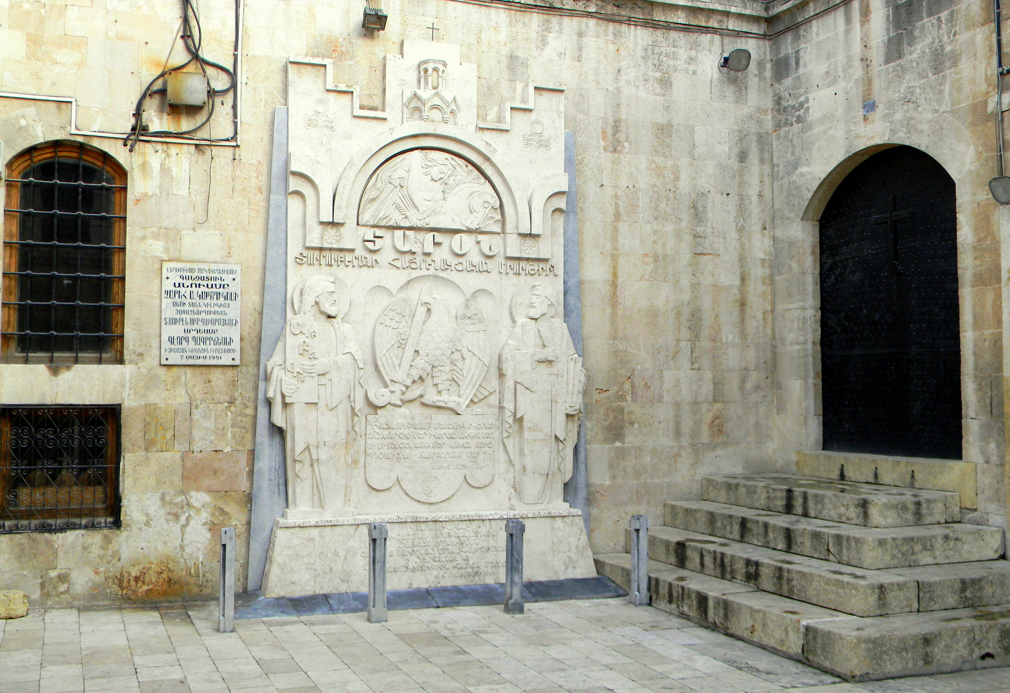 Monument to Taron and Turuberan Resistance at the churchyard of the Forty Martyrs Armenian Cathedral of Aleppo.